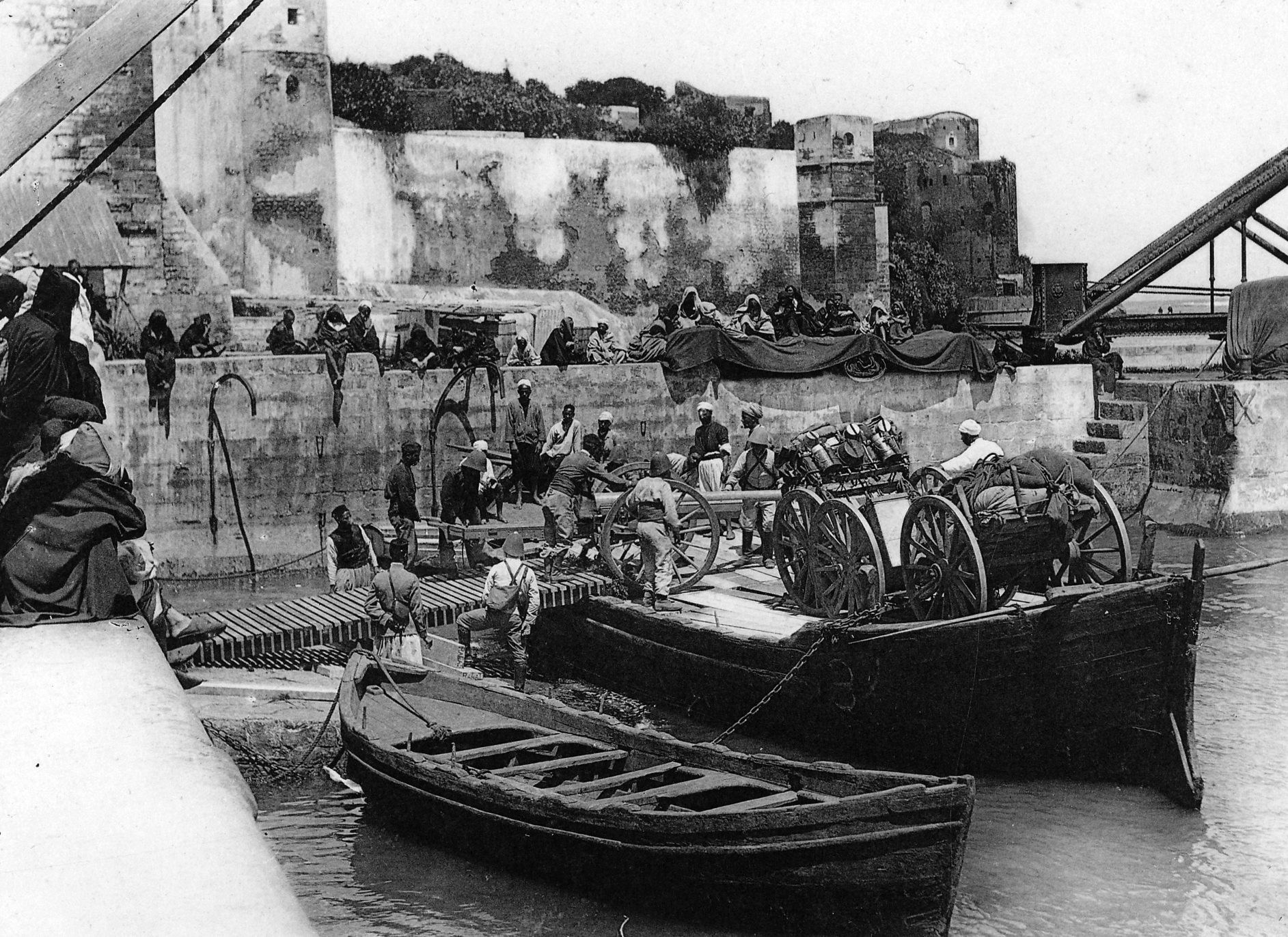 Pre-colonial Morocco. Rabat, 1911. Loading of the French artillery to the crossing of the Oued Bou Regreg.